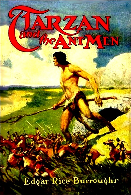 First edition of "Tarzan and the Ant-Men", 1924. From Project Gutenberg Australia